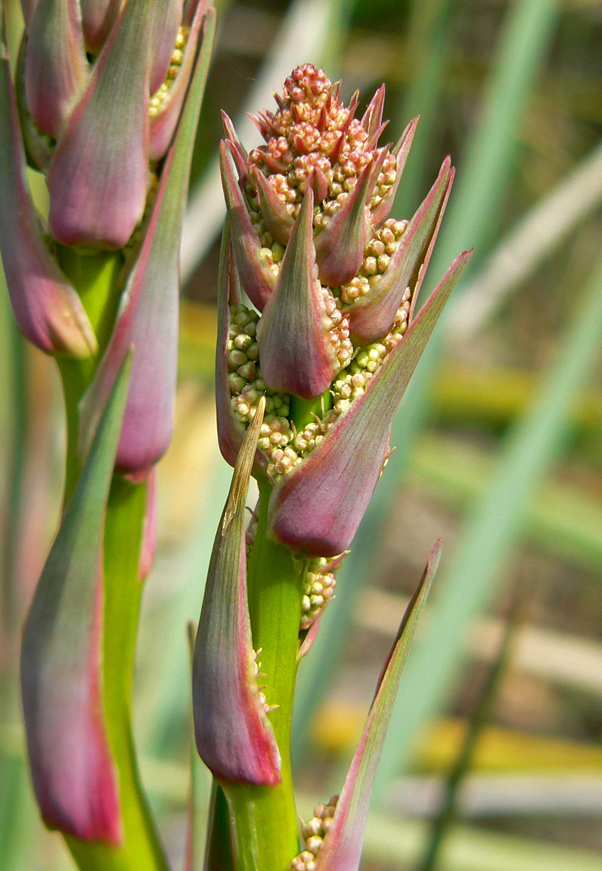 Photo of Nolina cismontana at the Regional Parks Botanic Garden, Berkeley, California